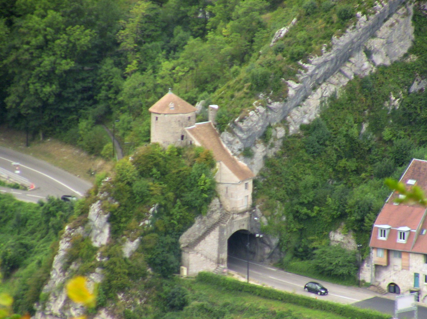 The Porte Taillé, located in Besançon (Doubs, France)